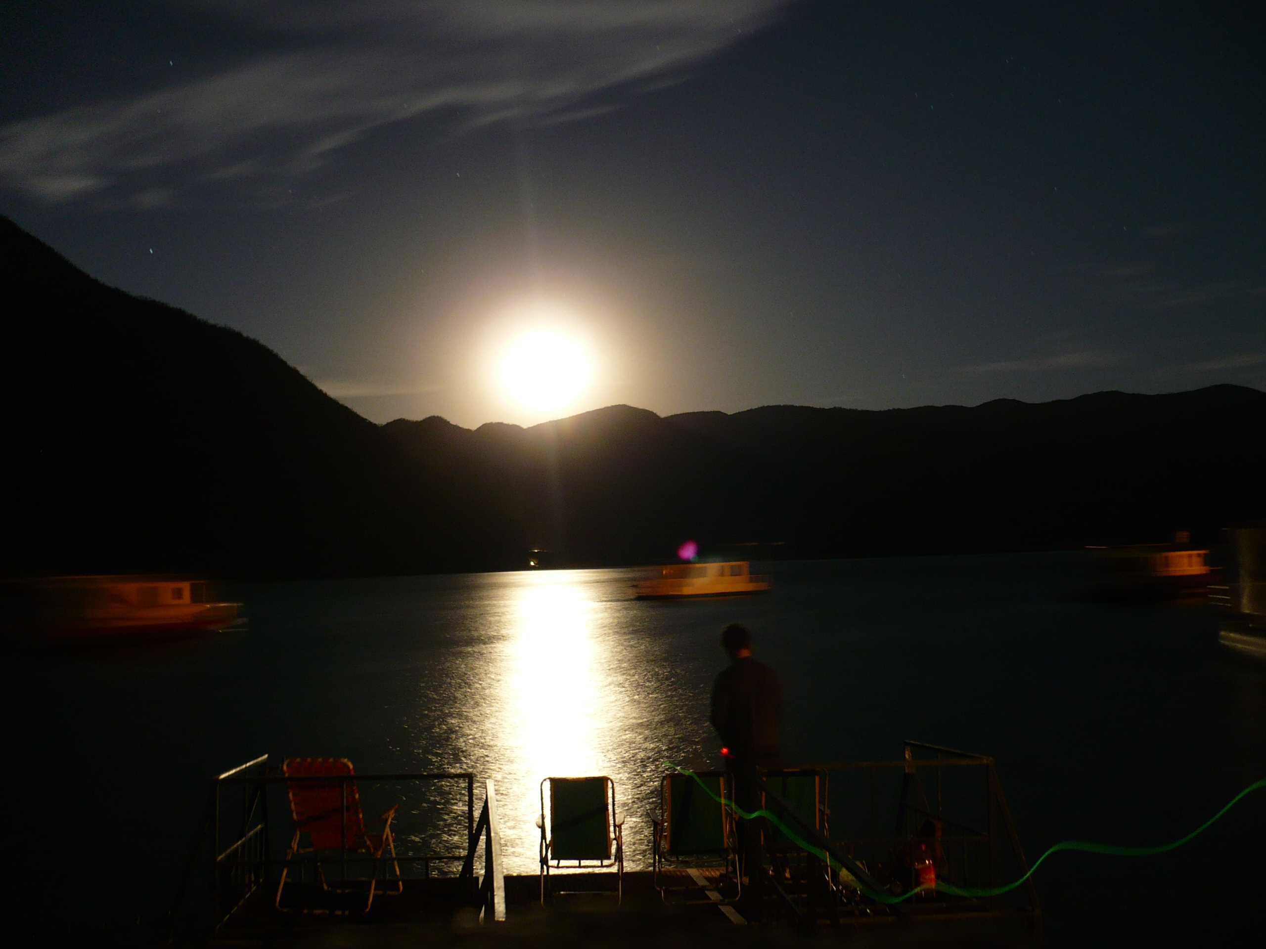 Moon shining over Cabra Corral dam